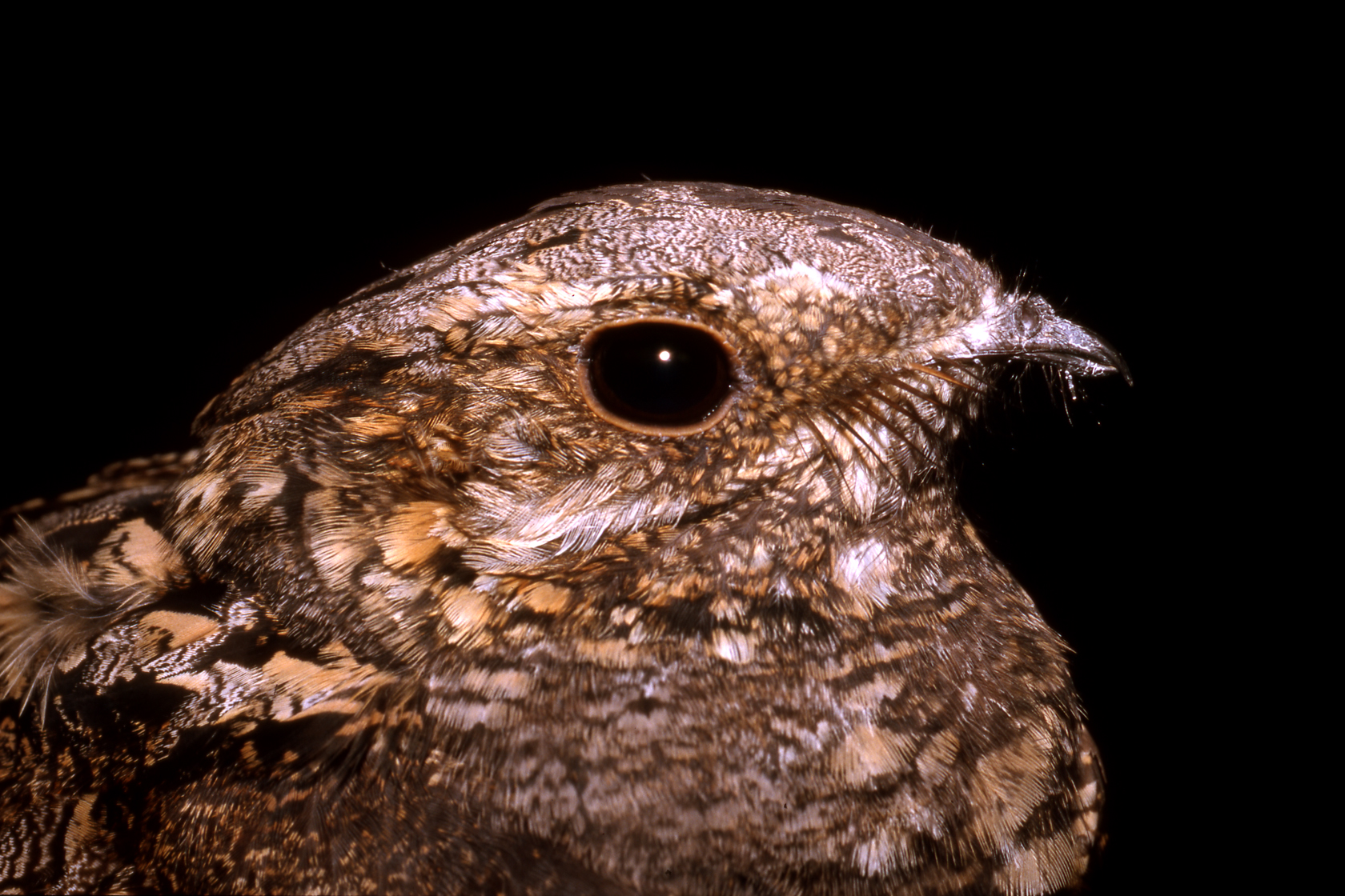 European Nighjar, Caprimulgus europaeus